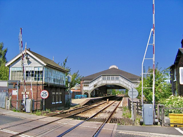 Beverley railway station, Beverley, East Riding of Yorkshire, England.The rail line runs NS along the east edge of the grid square.